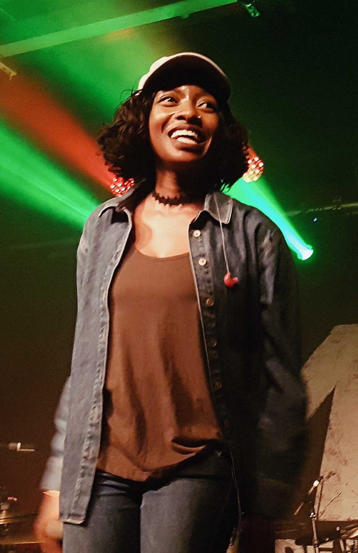 Little Simz performing on the Kano tour.